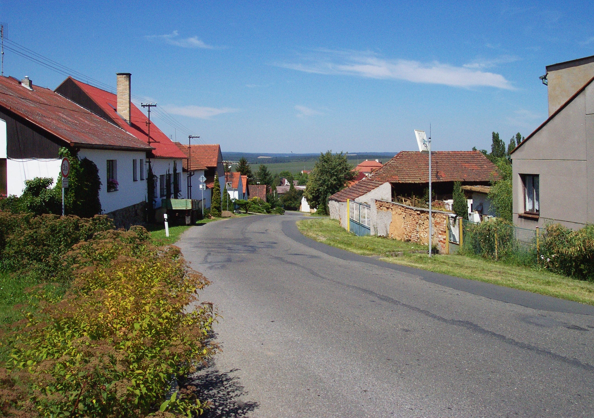 Bušovice village in Rakovník district near Plzeň, CZ